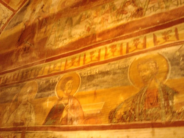 St. George Church in Lazarovci, Macedonia